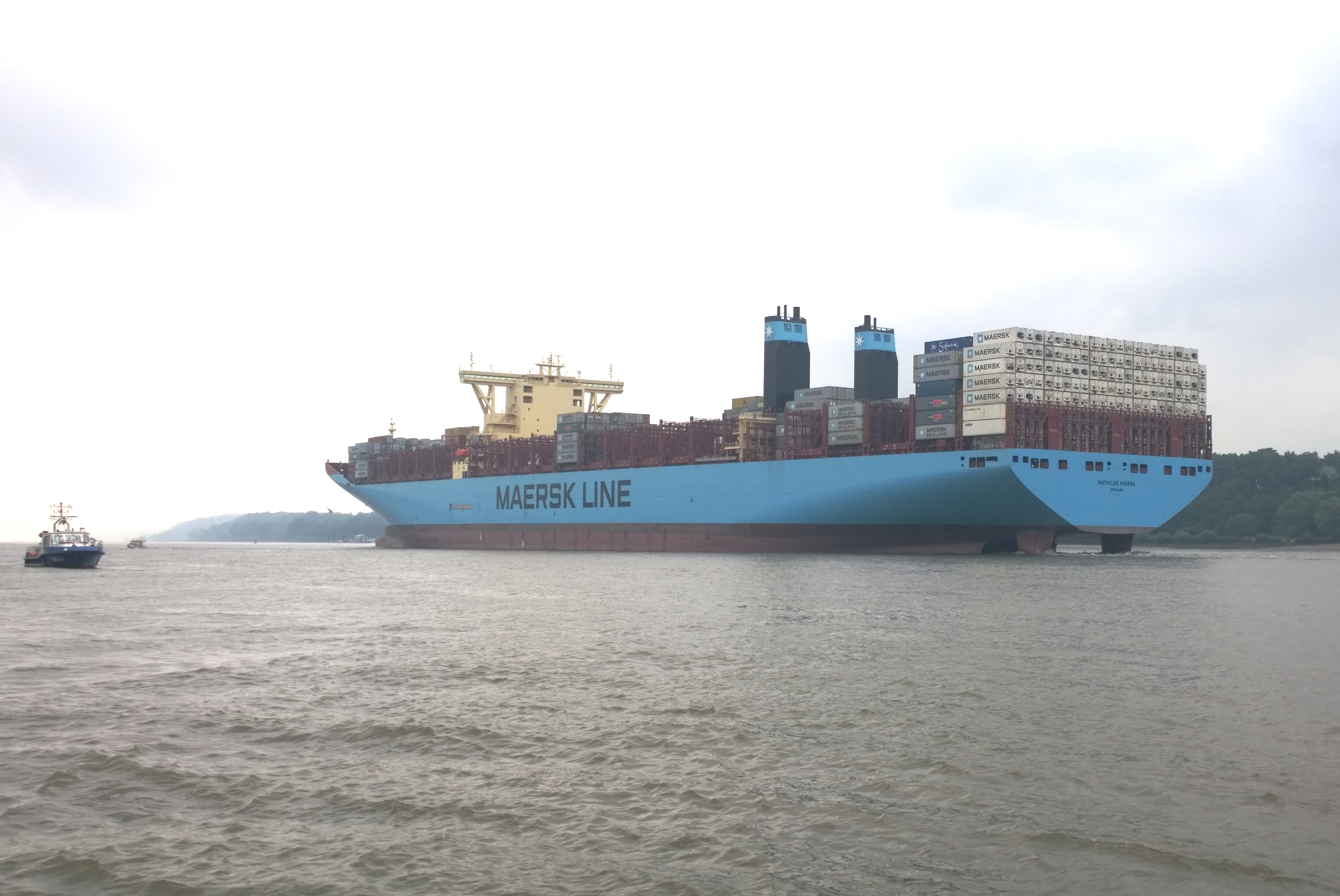 Container ship Mathilde Maersk river Elbe down in August 2015